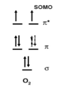 fadsfa